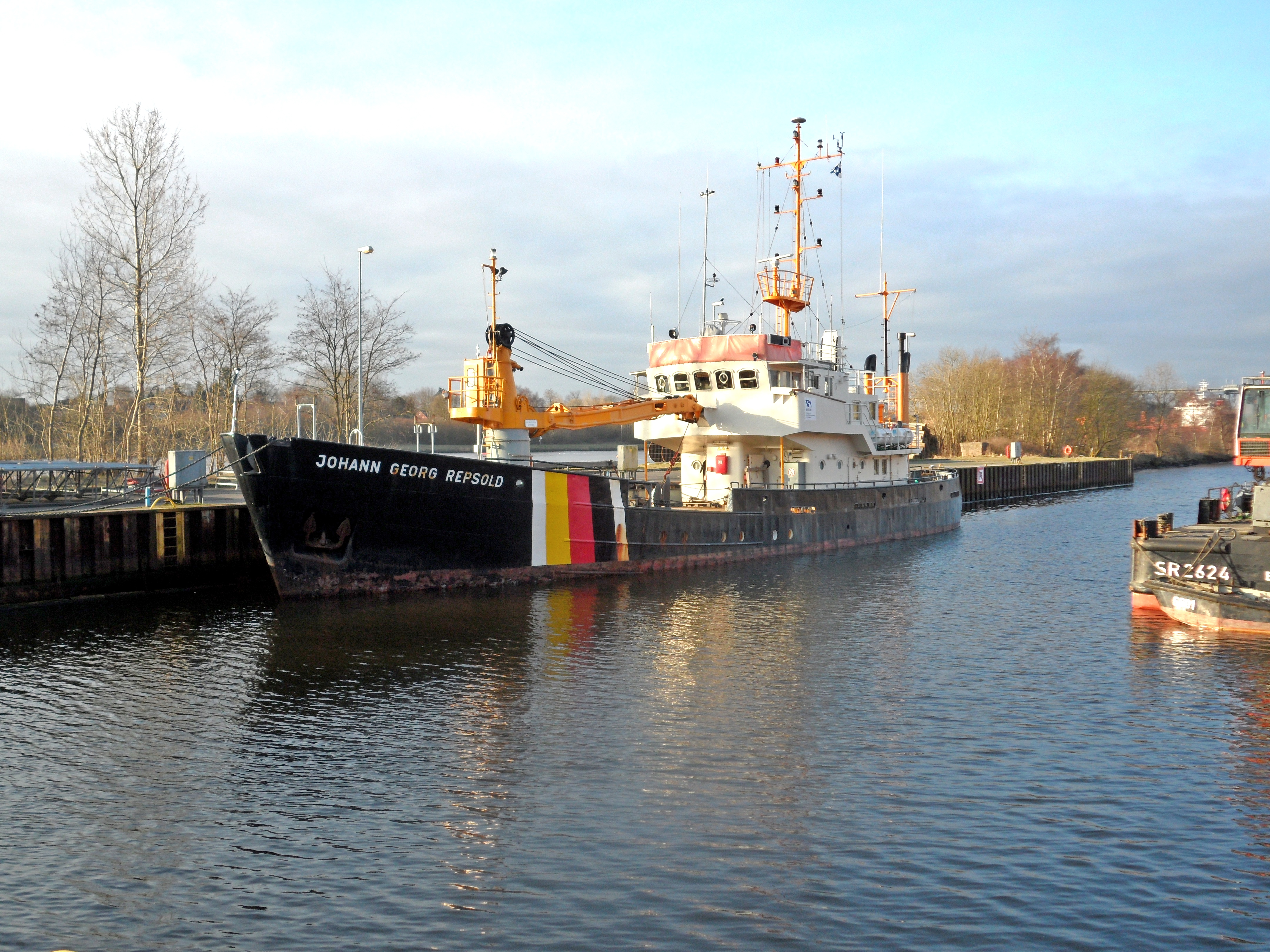 Buoy tender Johann Georg Repsold in Rendsburg